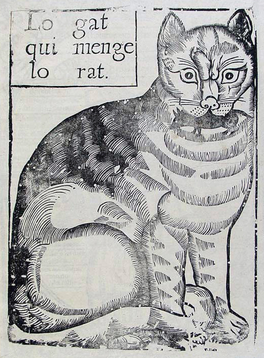 Lo gat qui menge lo rat – Illustration by Pere Abadal from Moià (Catalonia) from the 17th century.